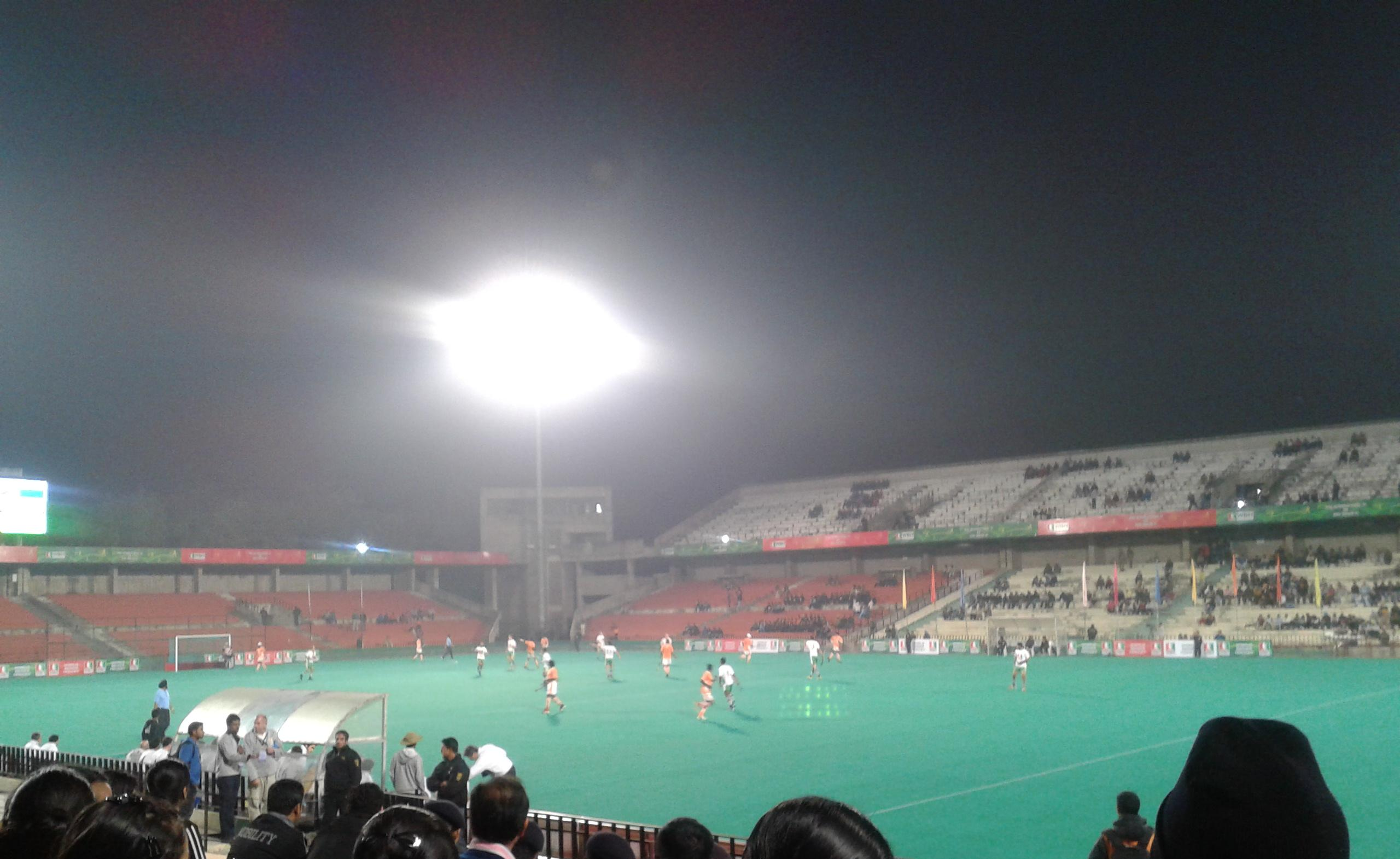 Exhibition Match (WSH 2011) between WSH World XI and WSH India XI in progress